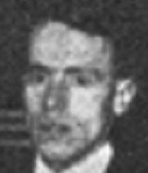 Miloslav Fleischmann (1886-1955). Czech lawyer and ice hockey player.